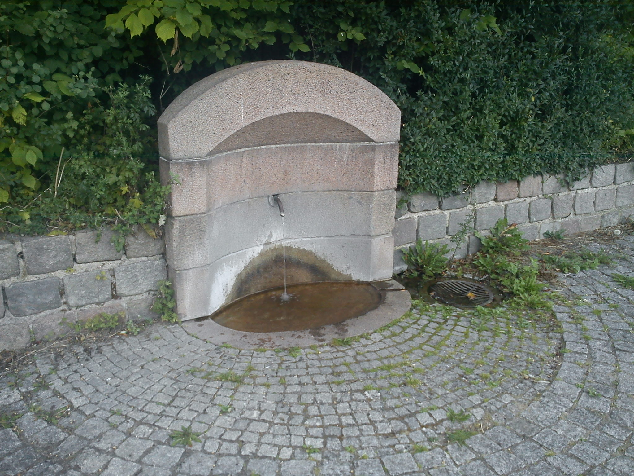 The sacred spring of Holy Niels in Aarhus, Denmark.